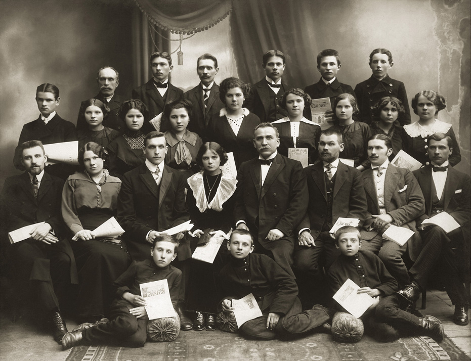 Saliamonas Banaitis with his printing-house employees; holding Lithuanian newspapers